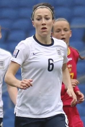 Jade Moore (15) and Lucy Bronze (6) playing for England